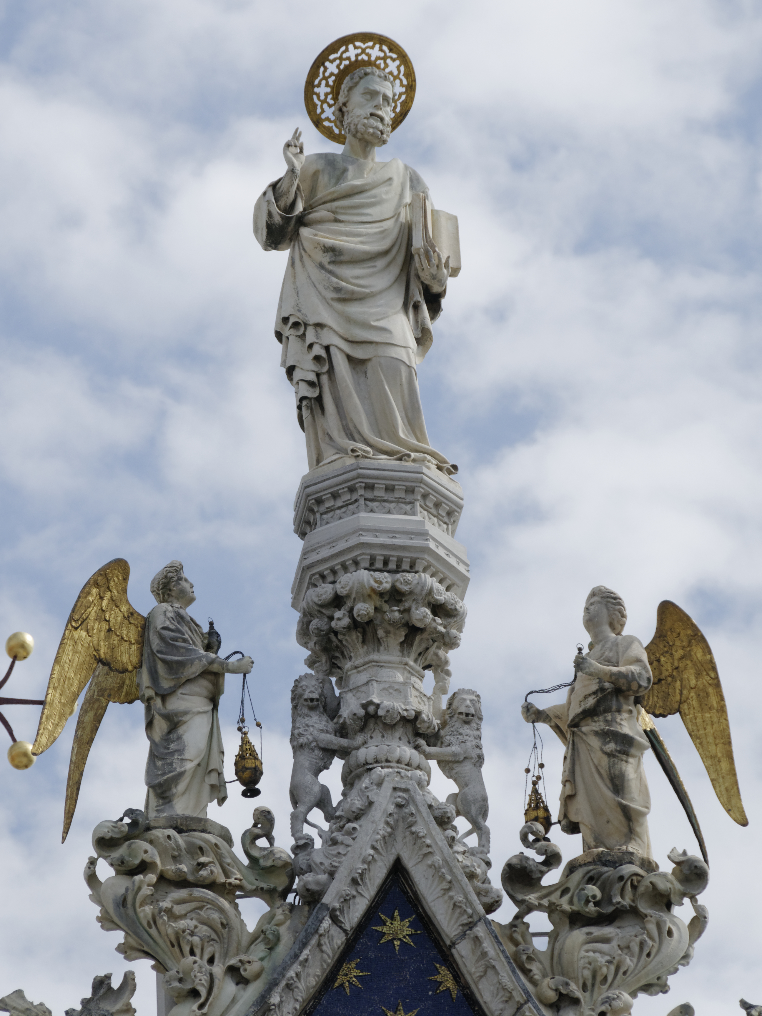 Pediment of the main portal, West façade of St Mark's Basilica in Venice.